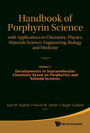 The front cover of the Handbook of Porphyrin Science by Karl M. Kadish, Kevin Smith, and Roger Guilard.